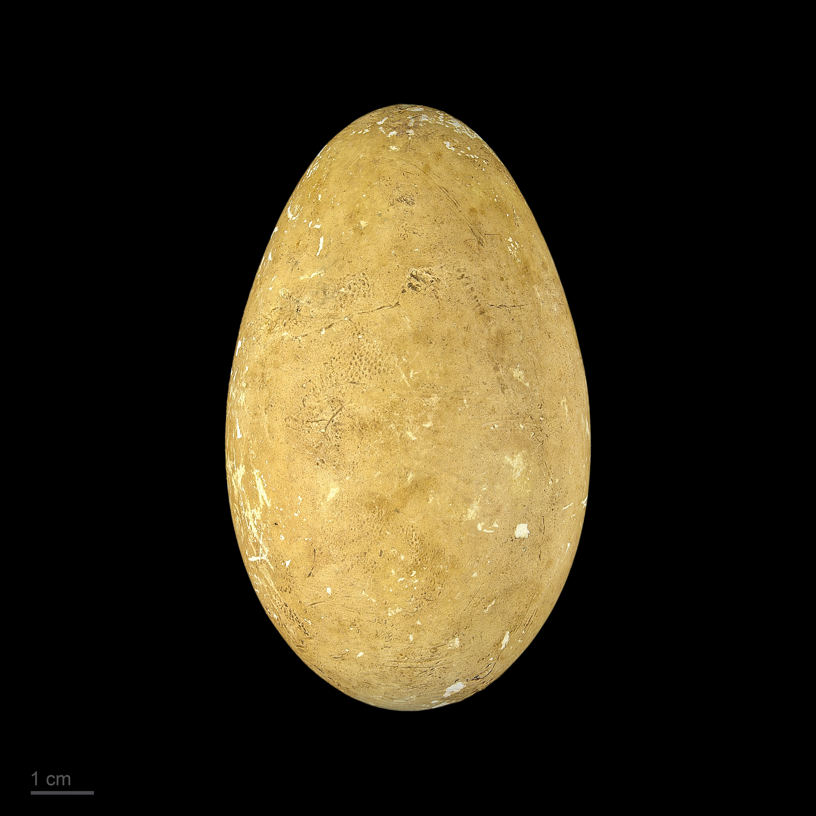 Eggs of northern gannet collection of Jacques Perrin de Brichambaut.